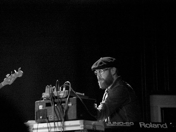 Nikolaj Torp Larsen in Aarhus, Denmark 2013